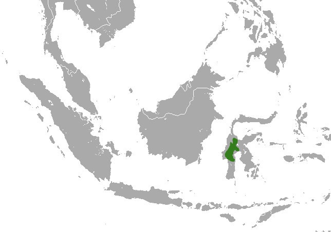 Pygmy Tarsier (Tarsius pumilus) range